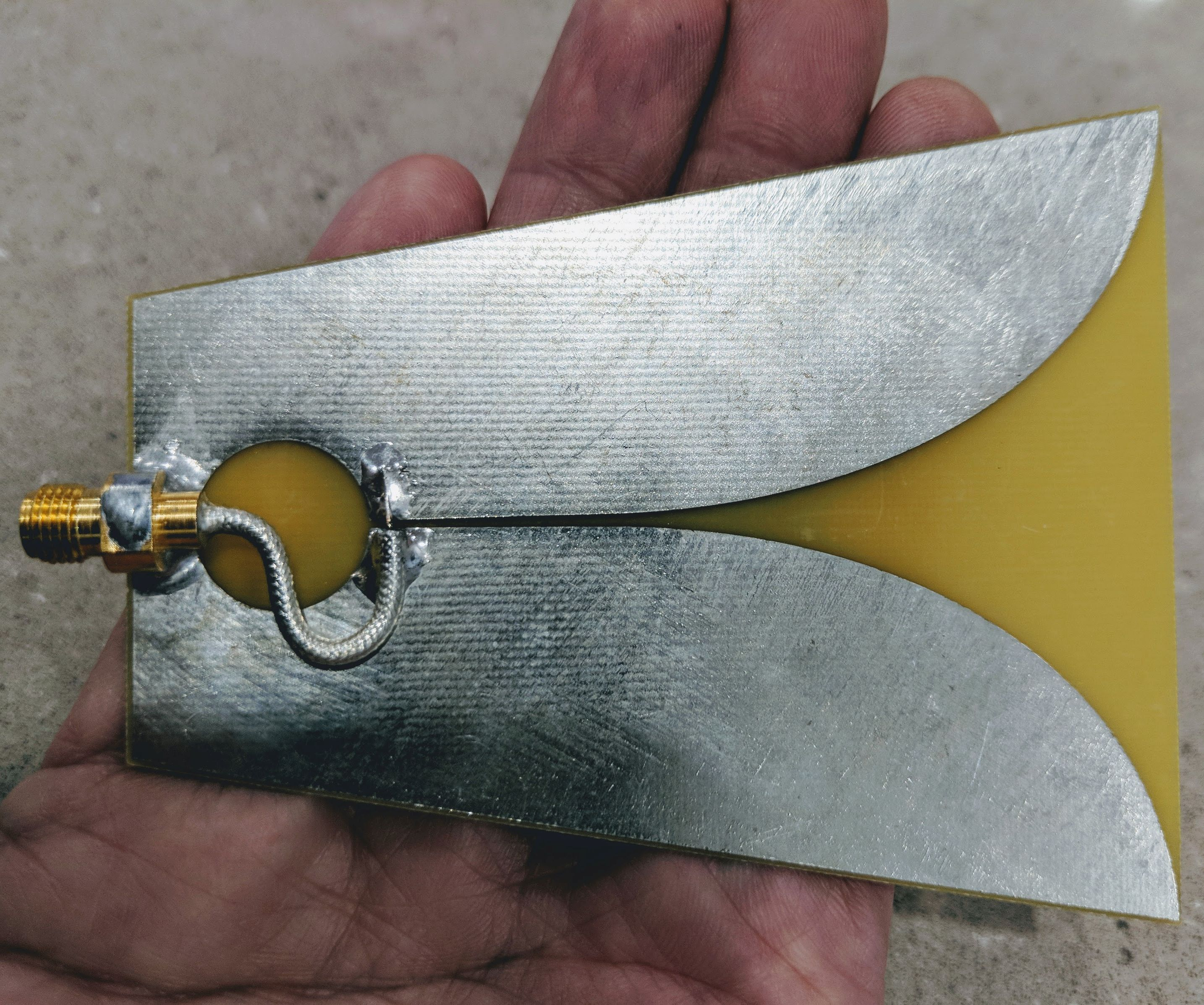 This inexpensive Vivaldi antenna is etched upon a printed circuit board and fed with a soldered-on coaxial cable and SMA connector.